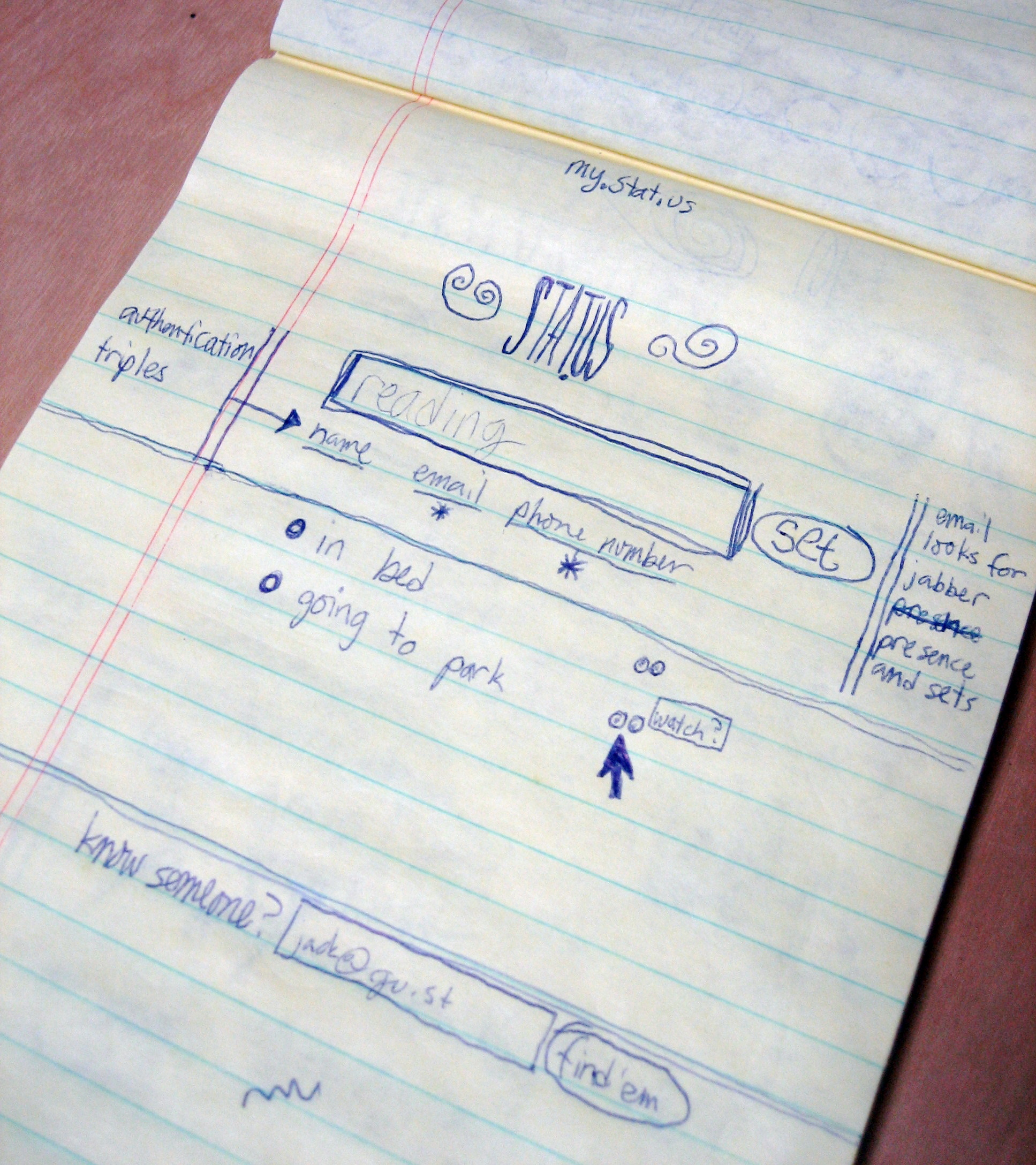 Sketch for Twitter. See also the author's description on Flickr.